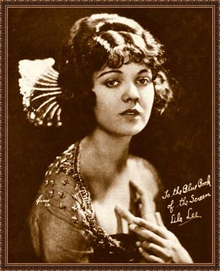 Publicity photo of Lila Lee from The Blue Book of the Screen by Ruth Wing, editor